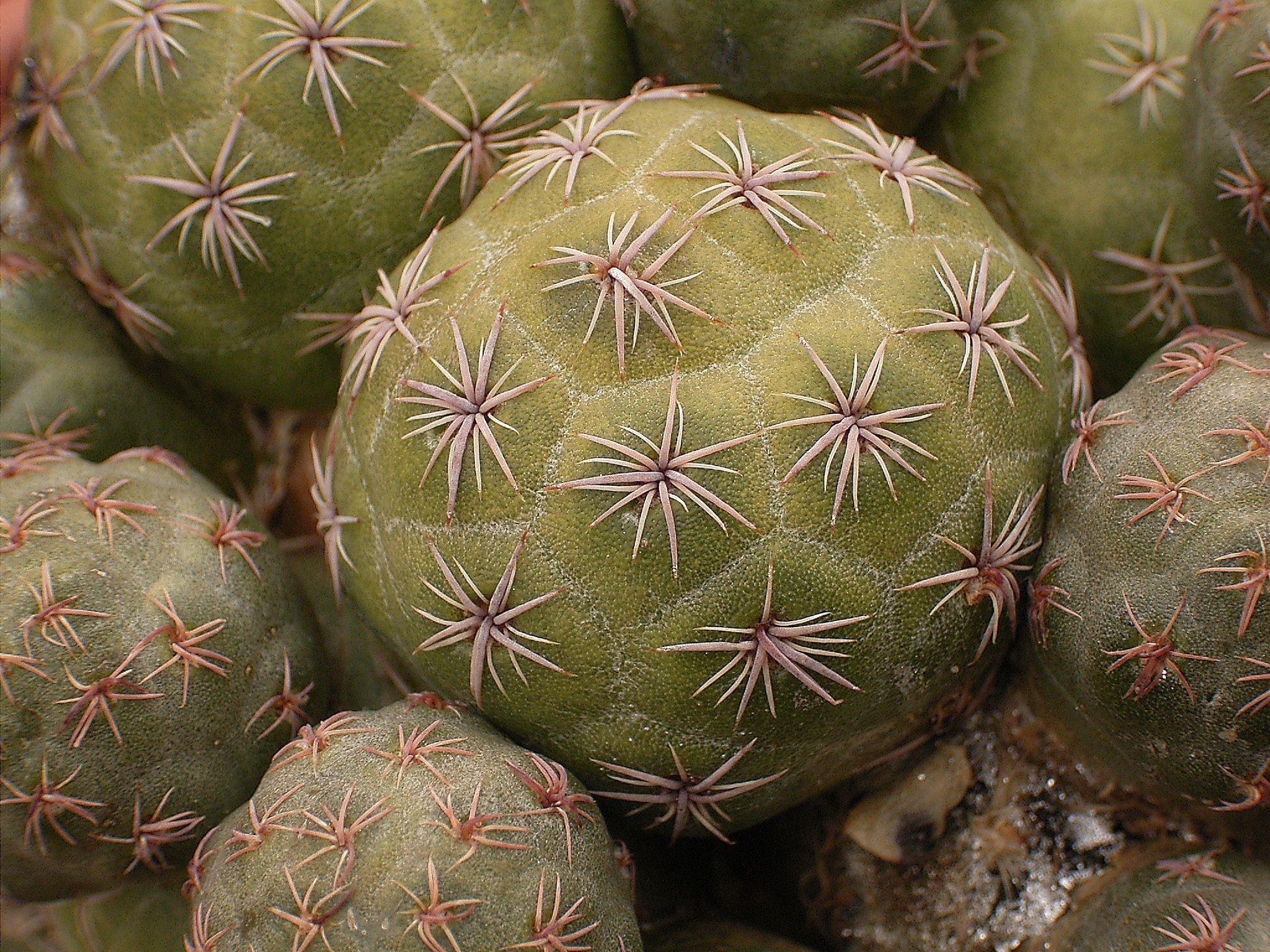 Maihueniopsis bonnieae